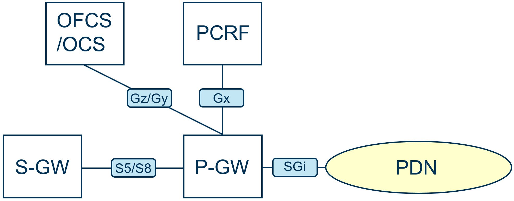 This figure presents the main interfaces that P-GW shares with other EPC nodes